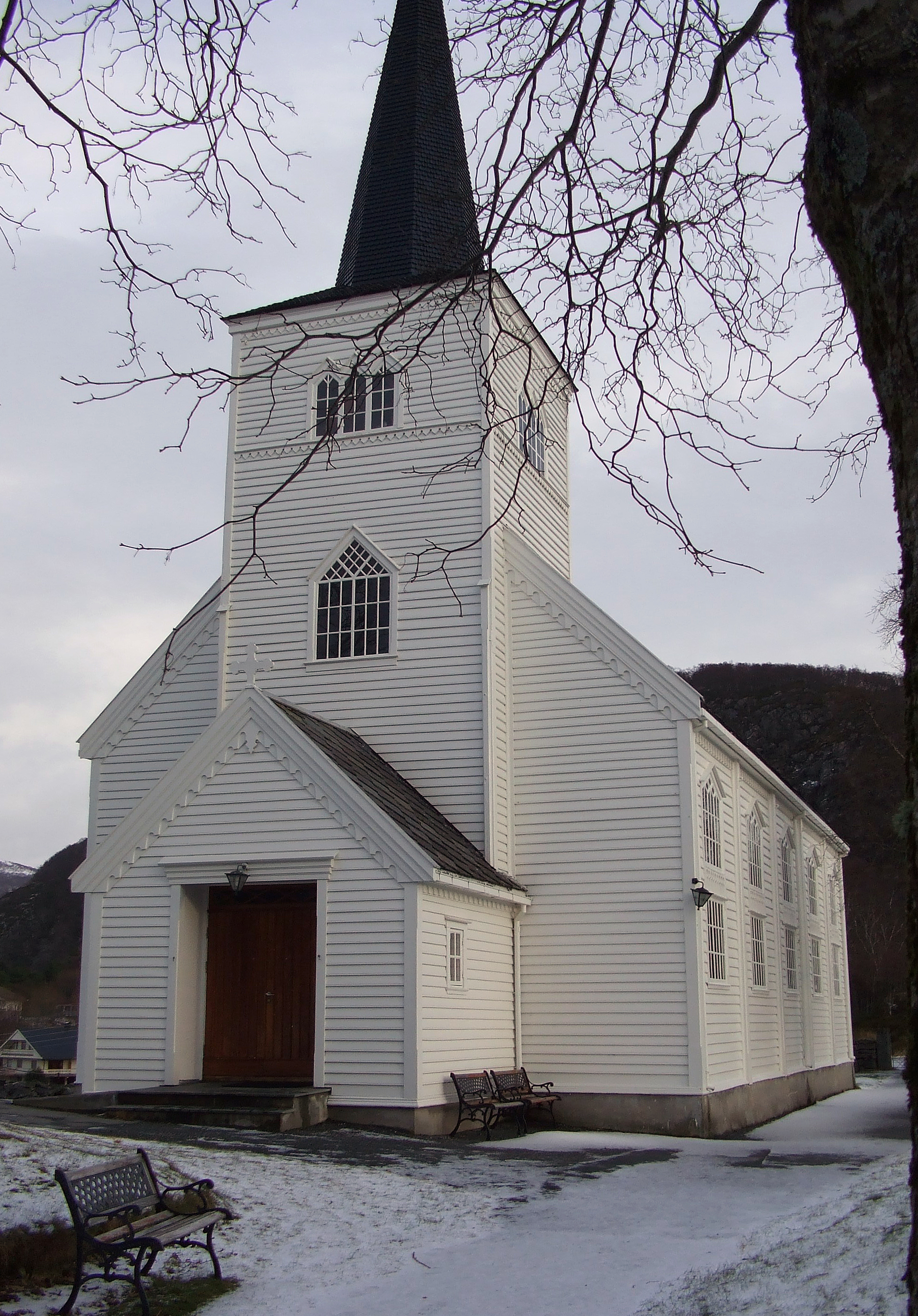 Church in Søvik, Haram Kommune, Norway